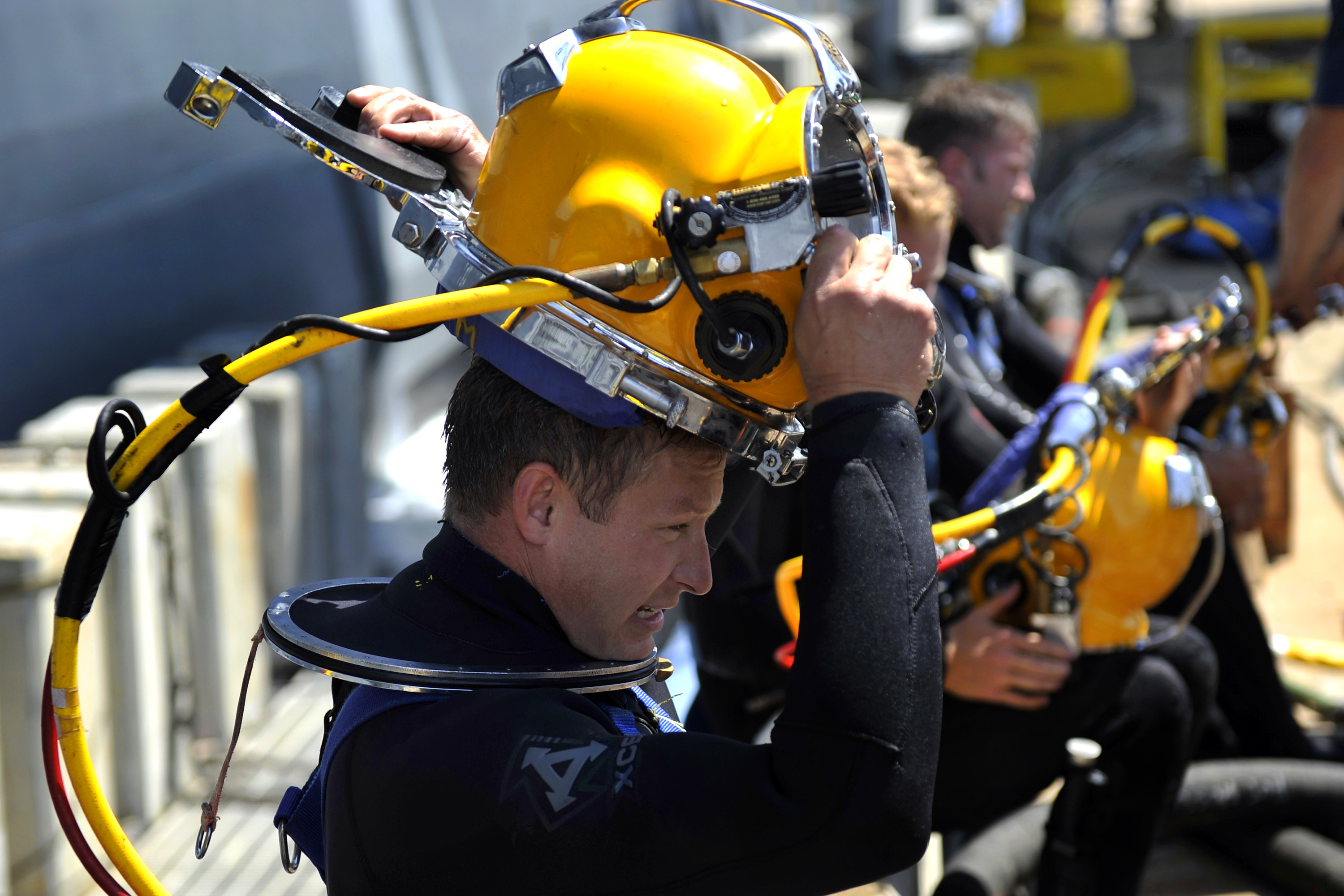 Navy Petty Officer 2nd Class Justin Lemons prepares to perform underwater hull maintenance on the USS Boxer in San Diego, July 10, 2012.